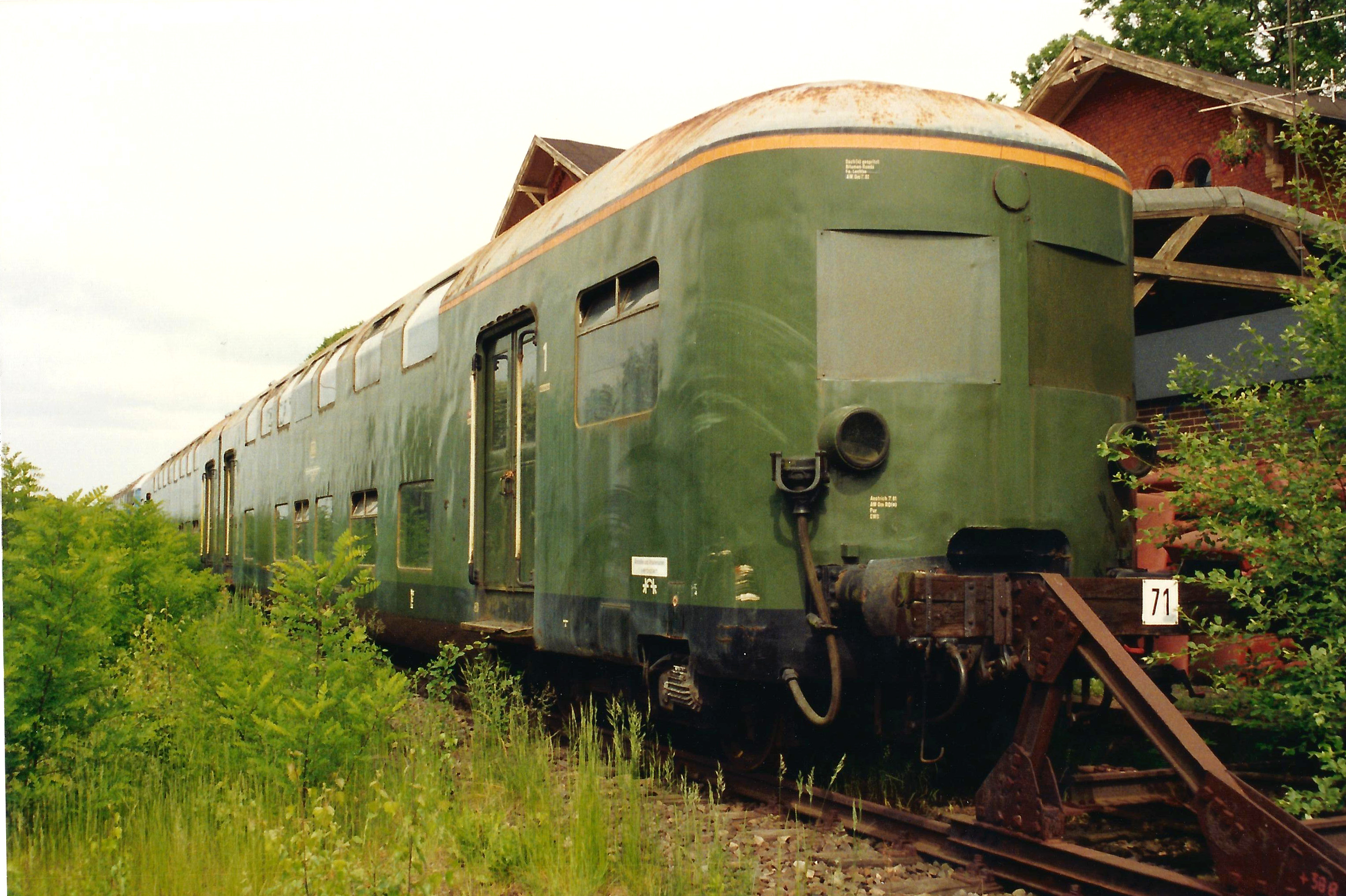 Double-decker car DAB 20800 of the former Lübeck-Büchen railroad (Lübeck-Büchener Eisenbahn, or LBE) at Hittfeld station, south of Hamburg, in 1993.